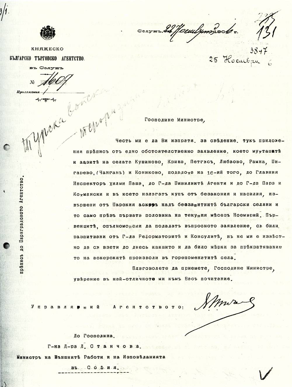 Report from the Bulgarian Trade Agency in Thessaloniki about the Ottoman army's violence and outrages against the Bulgarian population, 22 November 1906.